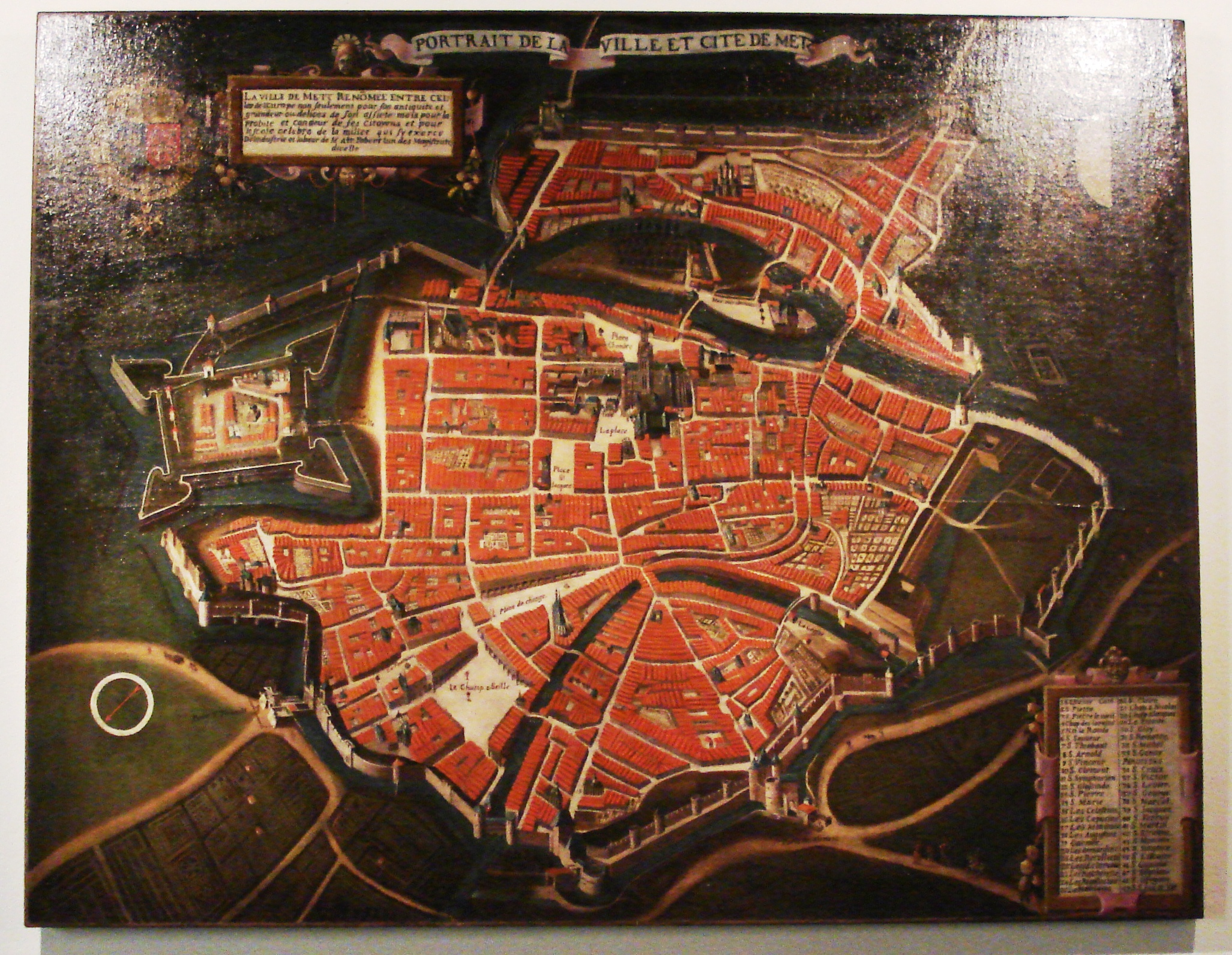 Painting of Metz circa XVIIth century.